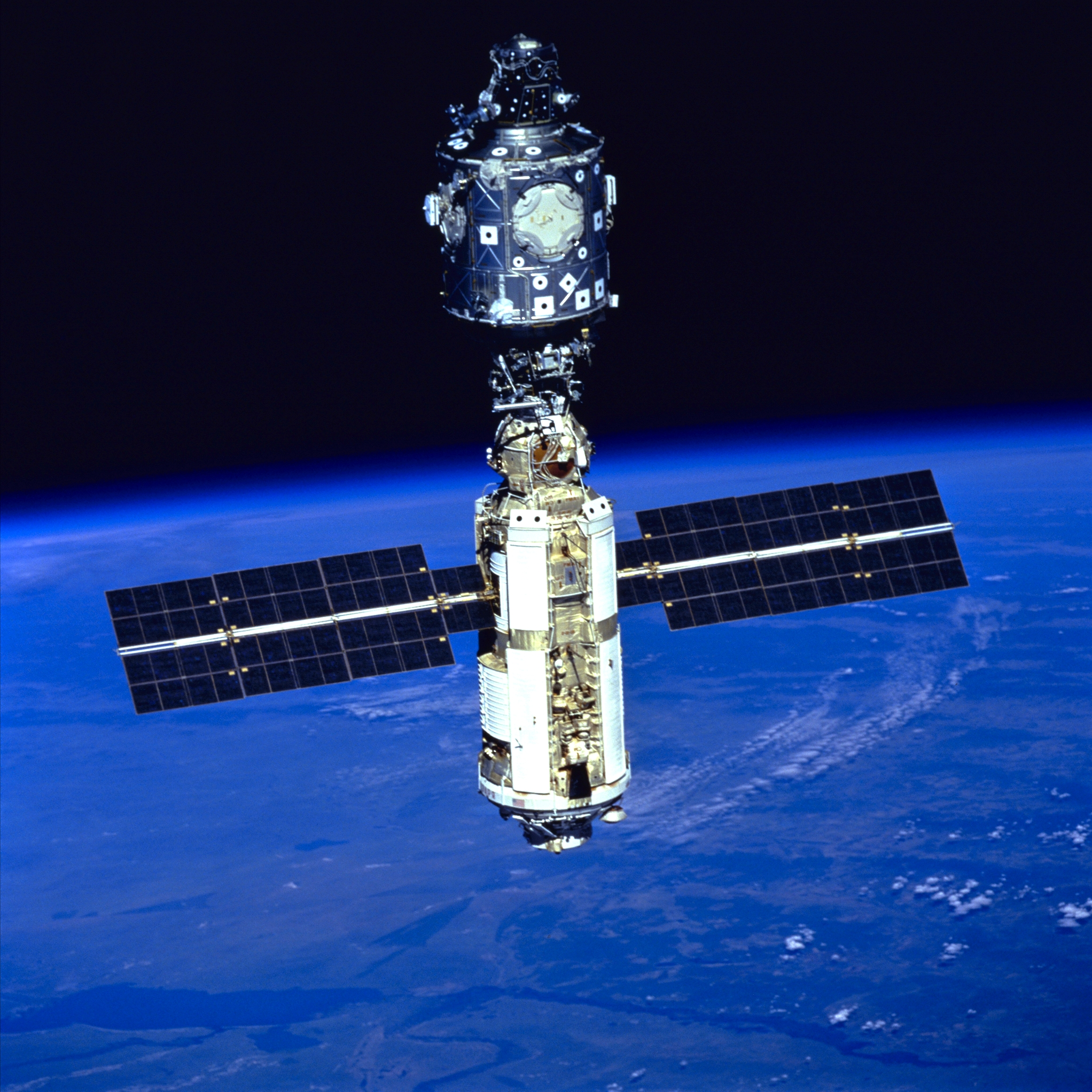 A STS-96 crew member aboard Discovery recorded this image of the International Space Station (ISS) with a 70mm camera during a fly-around following separation of the two spacecraft. Lake Hulun Nur in the People's Republic of China is visible in the lower left portion of the frame. A portion of the work performed on the May 30 space walk by astronauts Tamara E. Jernigan and Daniel T. Barry is evident at various points on the ISS, including the installation of the Russian-built crane (called Strela) and the U.S.-built crane.